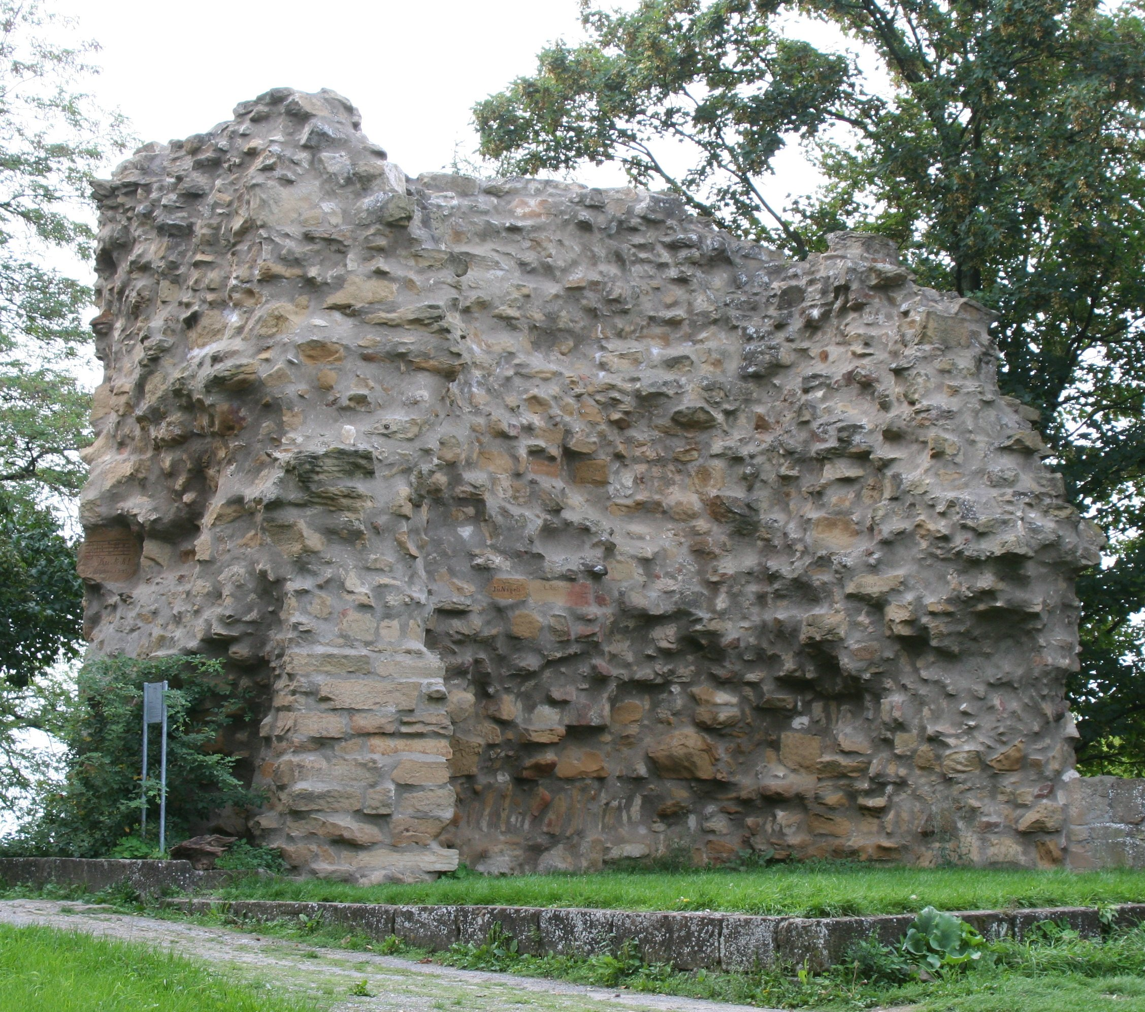 Burgruine Weibertreu. Remains of the donjon